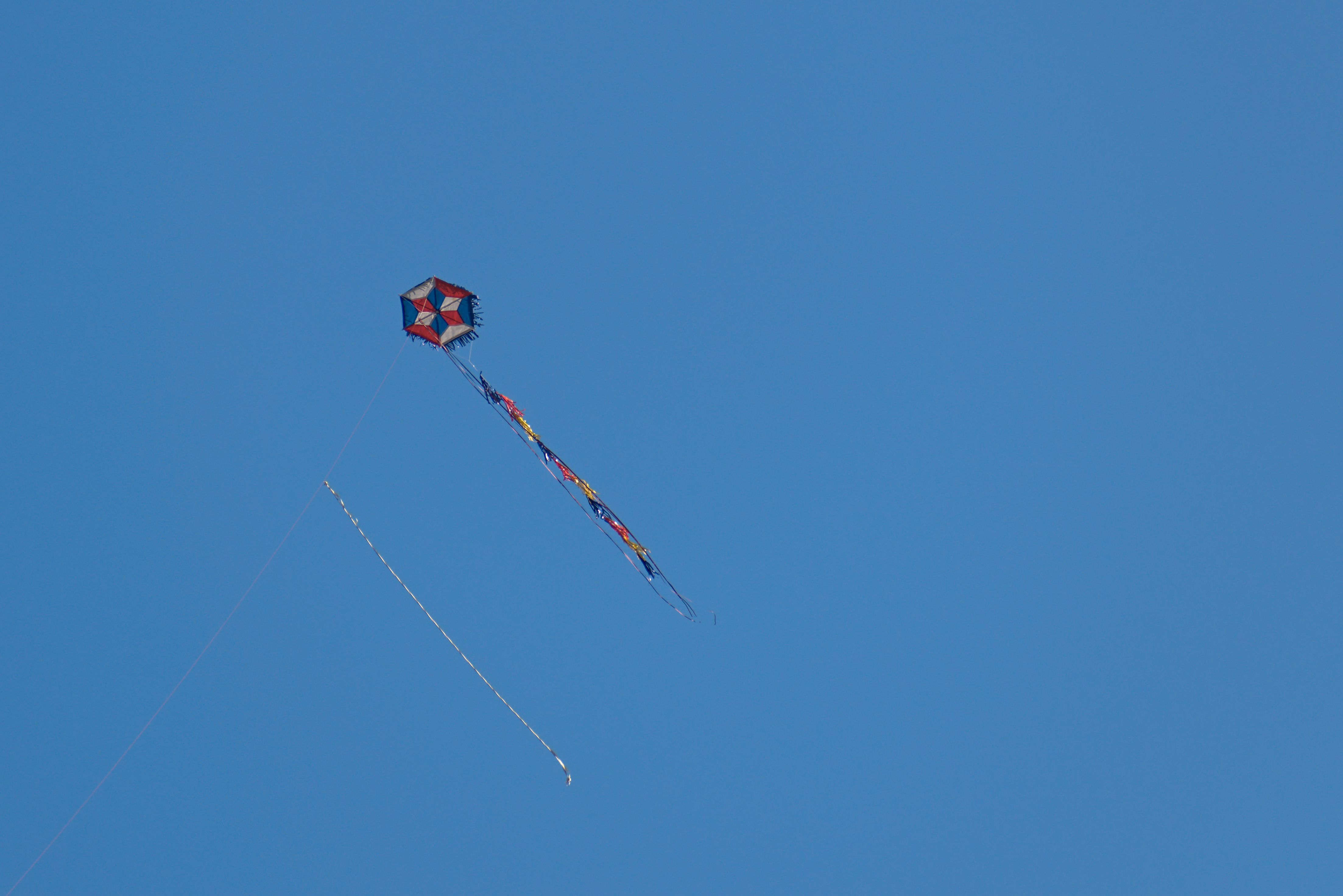 Greek kite